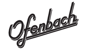 Ofenbach Logo By Ivan Peev